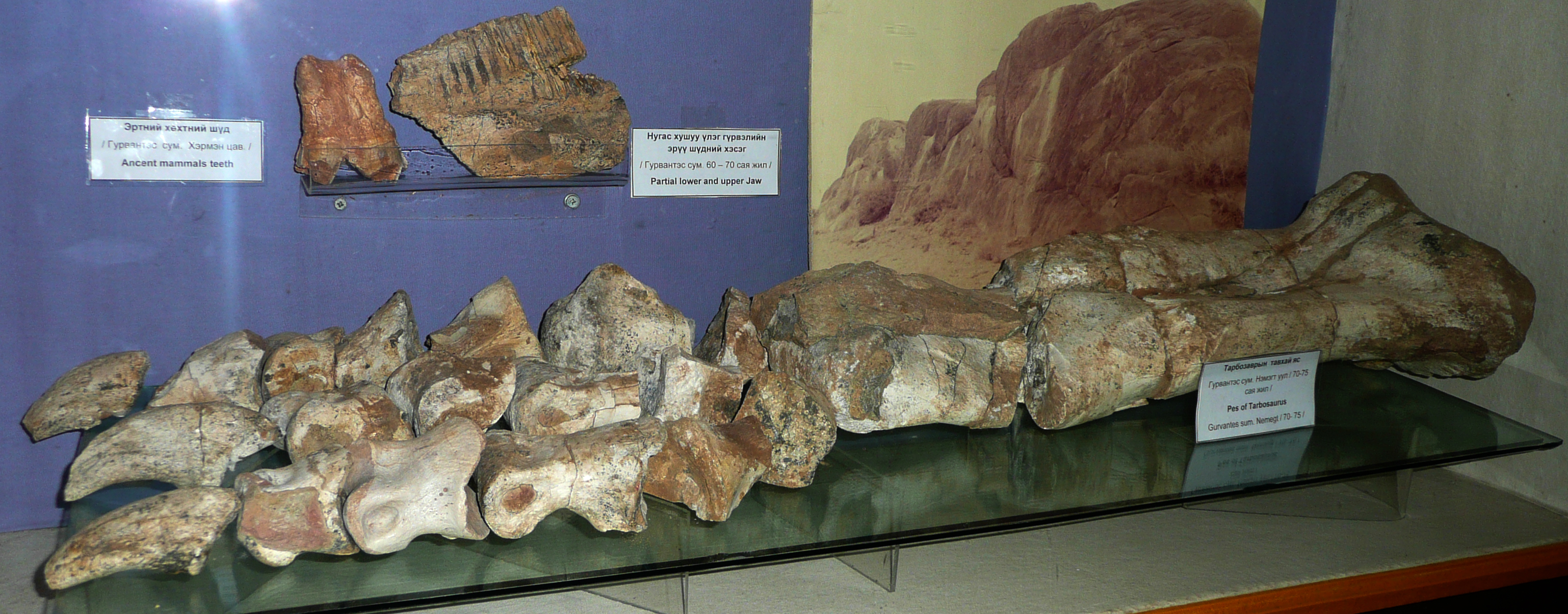 Pes of Tarbosaurus, Museum of South Gobi in Dalanzadgad